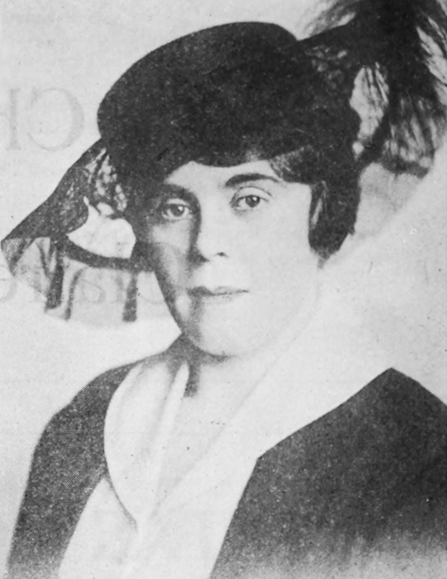 Portrait of Dorothy Vernon